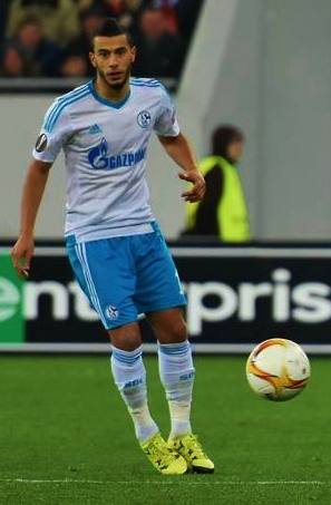 Younès Belhanda